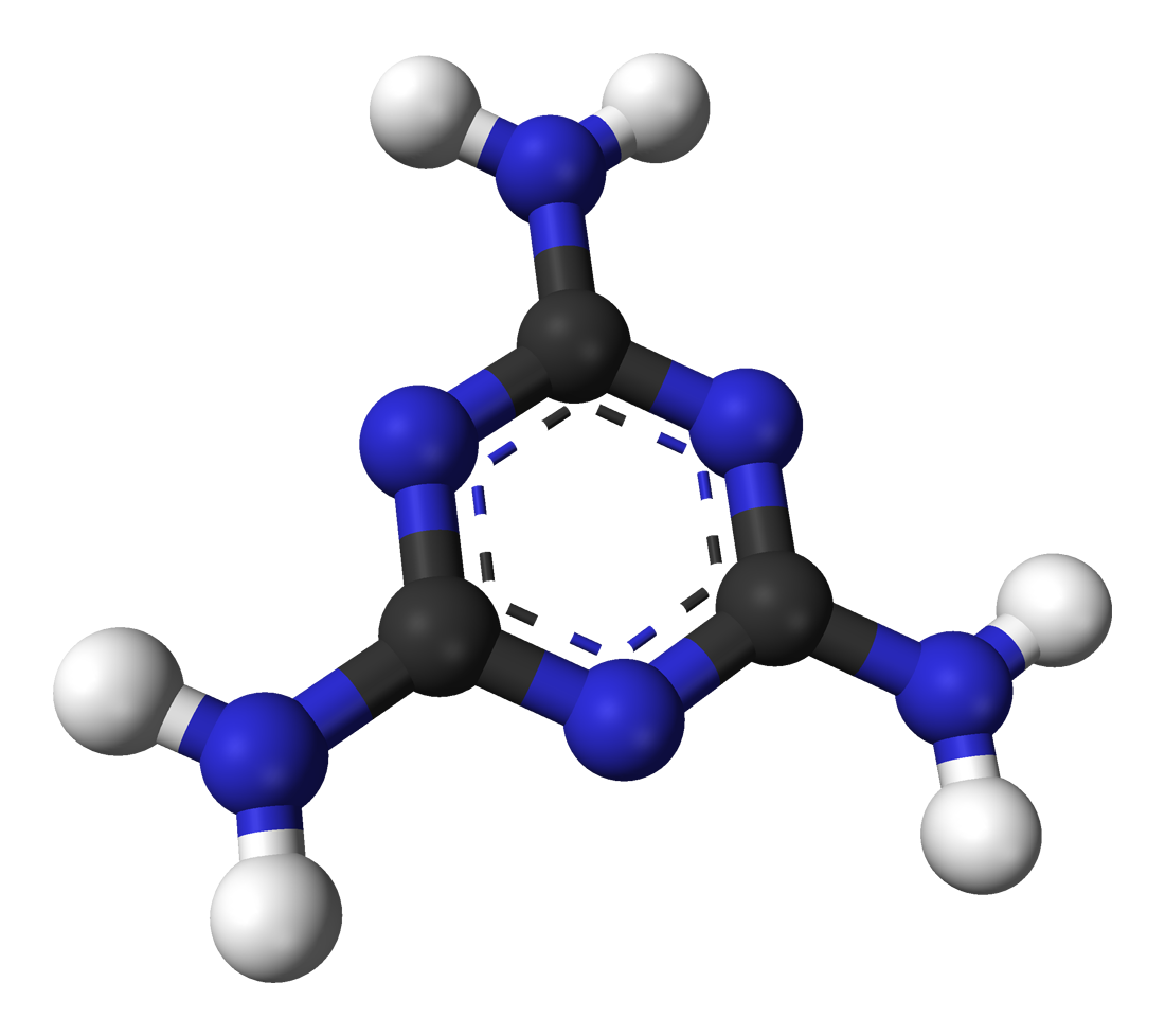 Ball-and-stick model of melamine